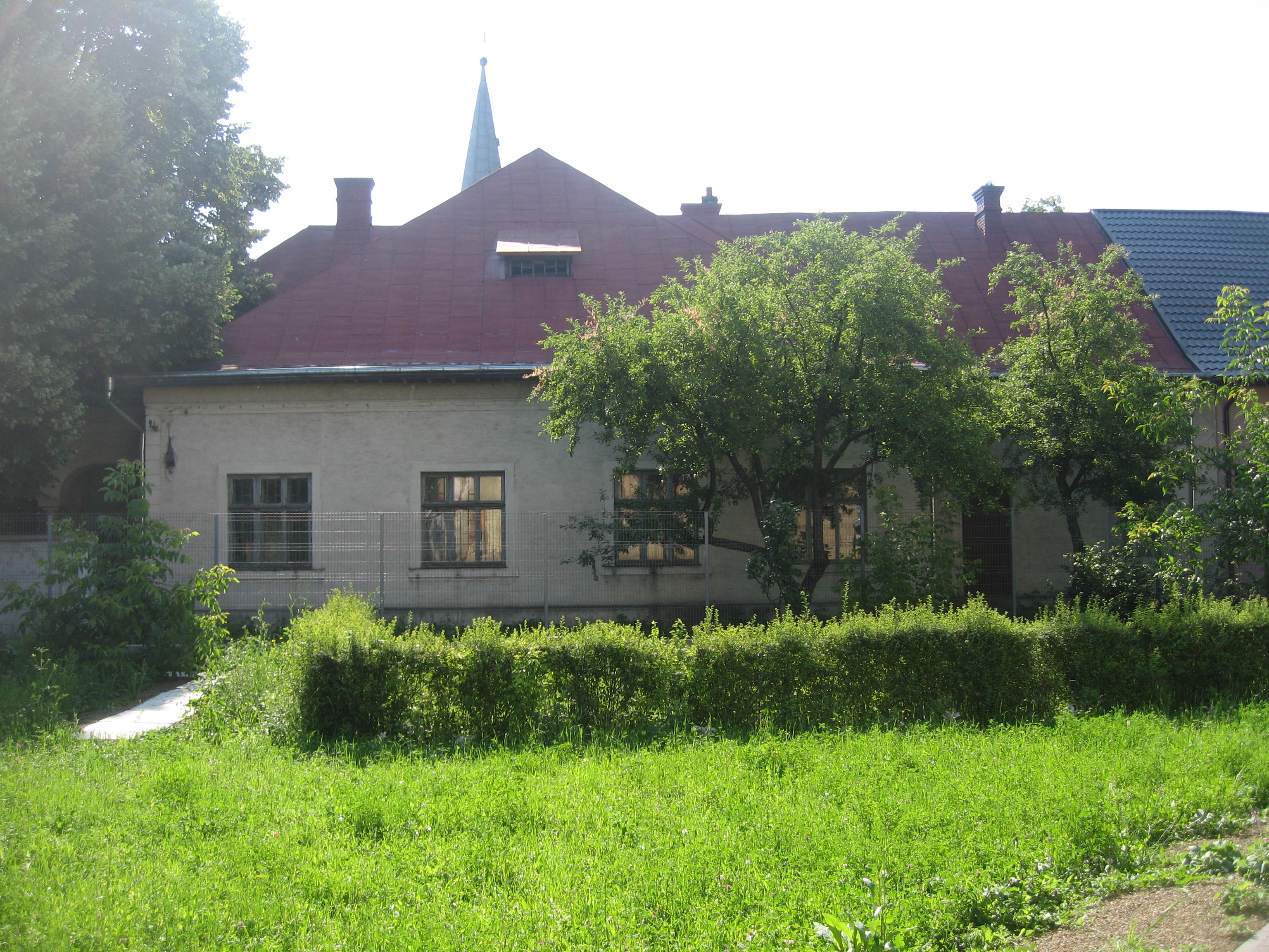 Former Iţcani Town Hall in Suceava.